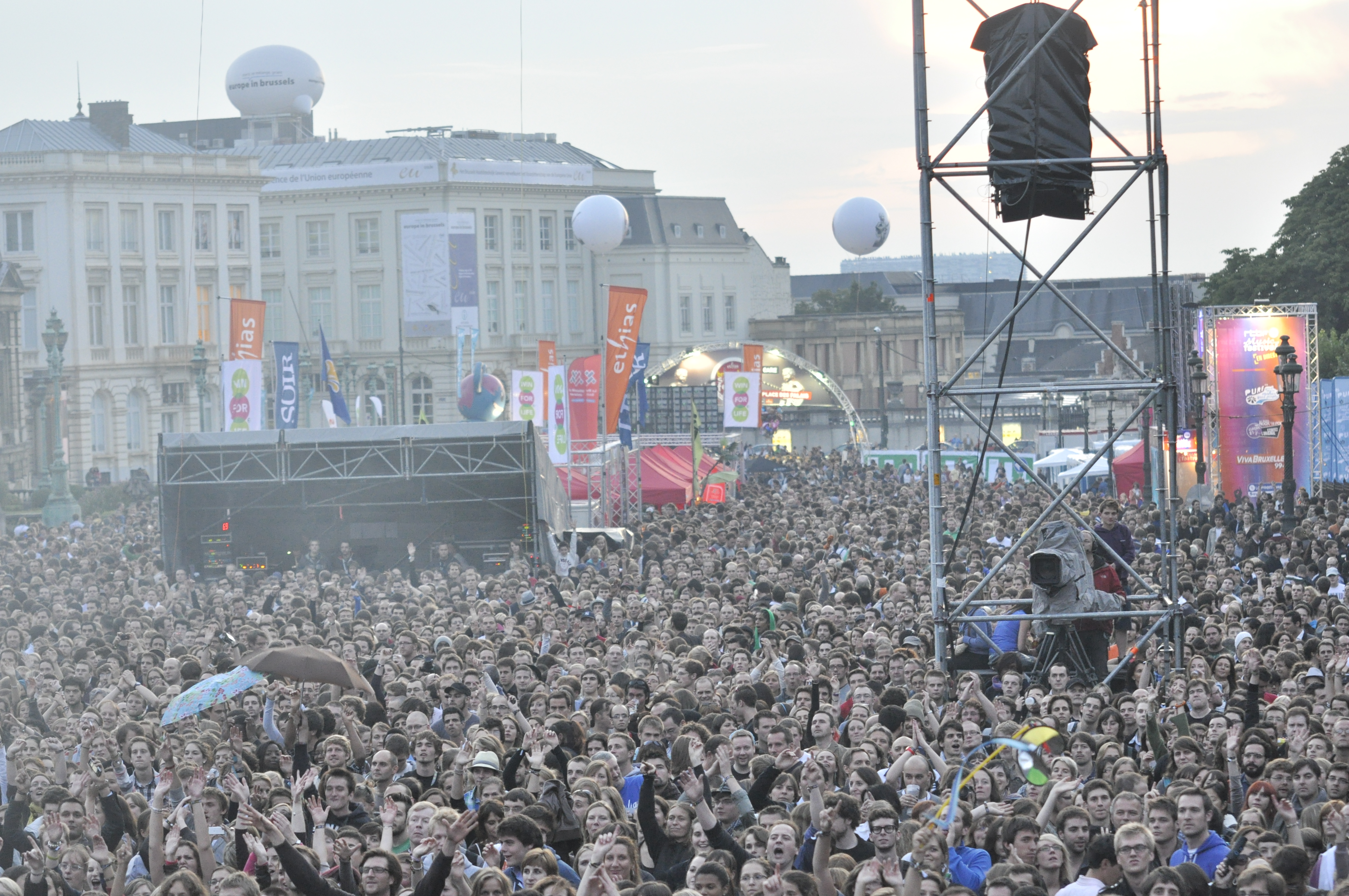 Making off Gigapan 3,2 Go, 332 X D5 24Mb. visit press image CC Grimonprez 2010